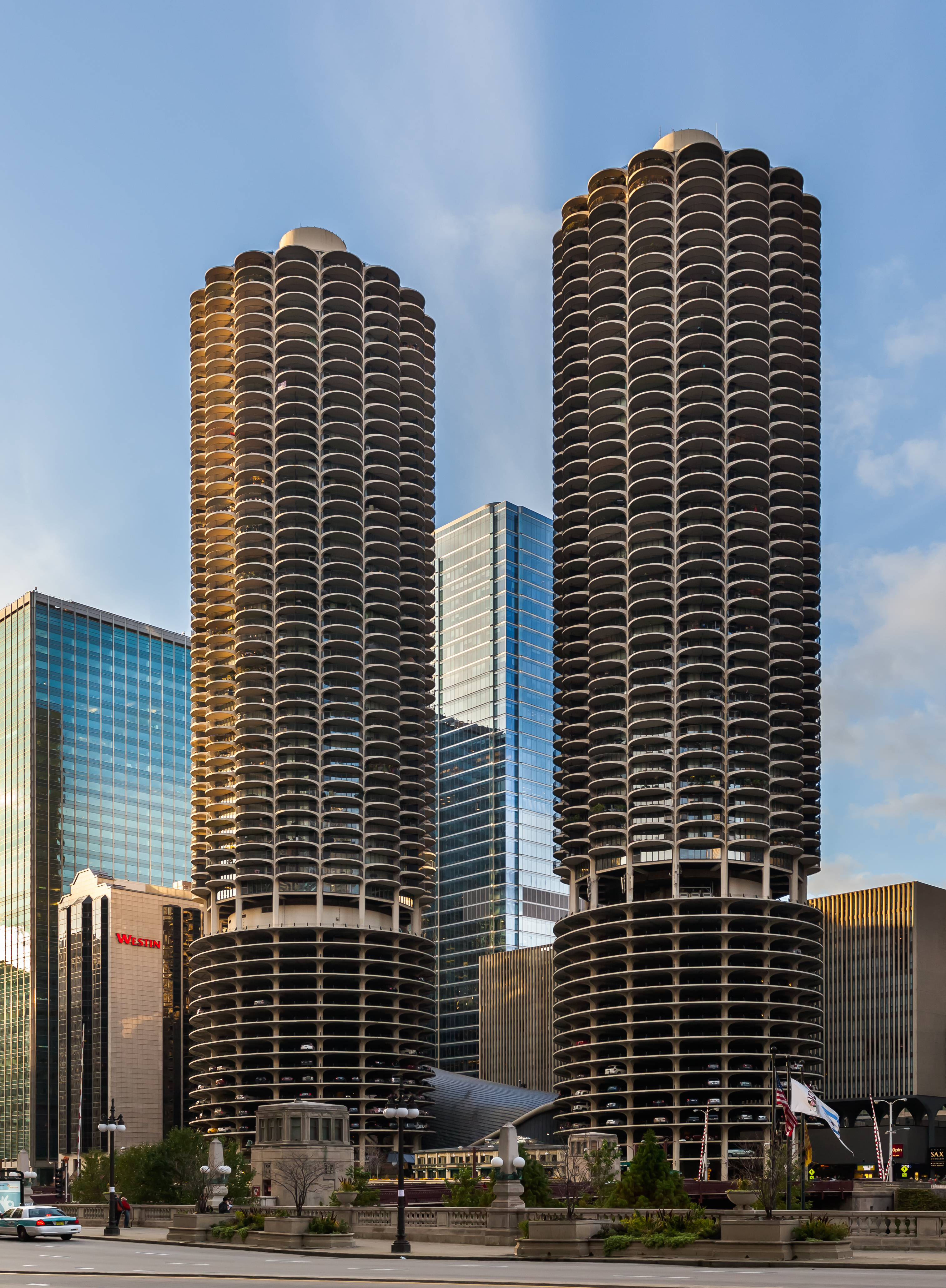 Marina City is a mixed-use residential/commercial building complex located in the center of Chicago, Illinois. It sits on the north bank of the Chicago River directly across from the Loop district. The complex, that was designed in 1959 by Bertrand Goldberg and completed in 1964, consists of two corncob-shaped 179 m, 65-story towers.